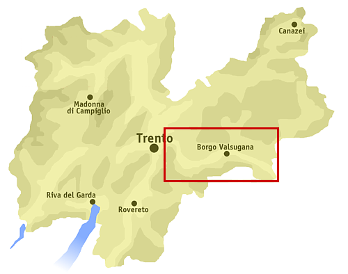 Maps of Valsugana